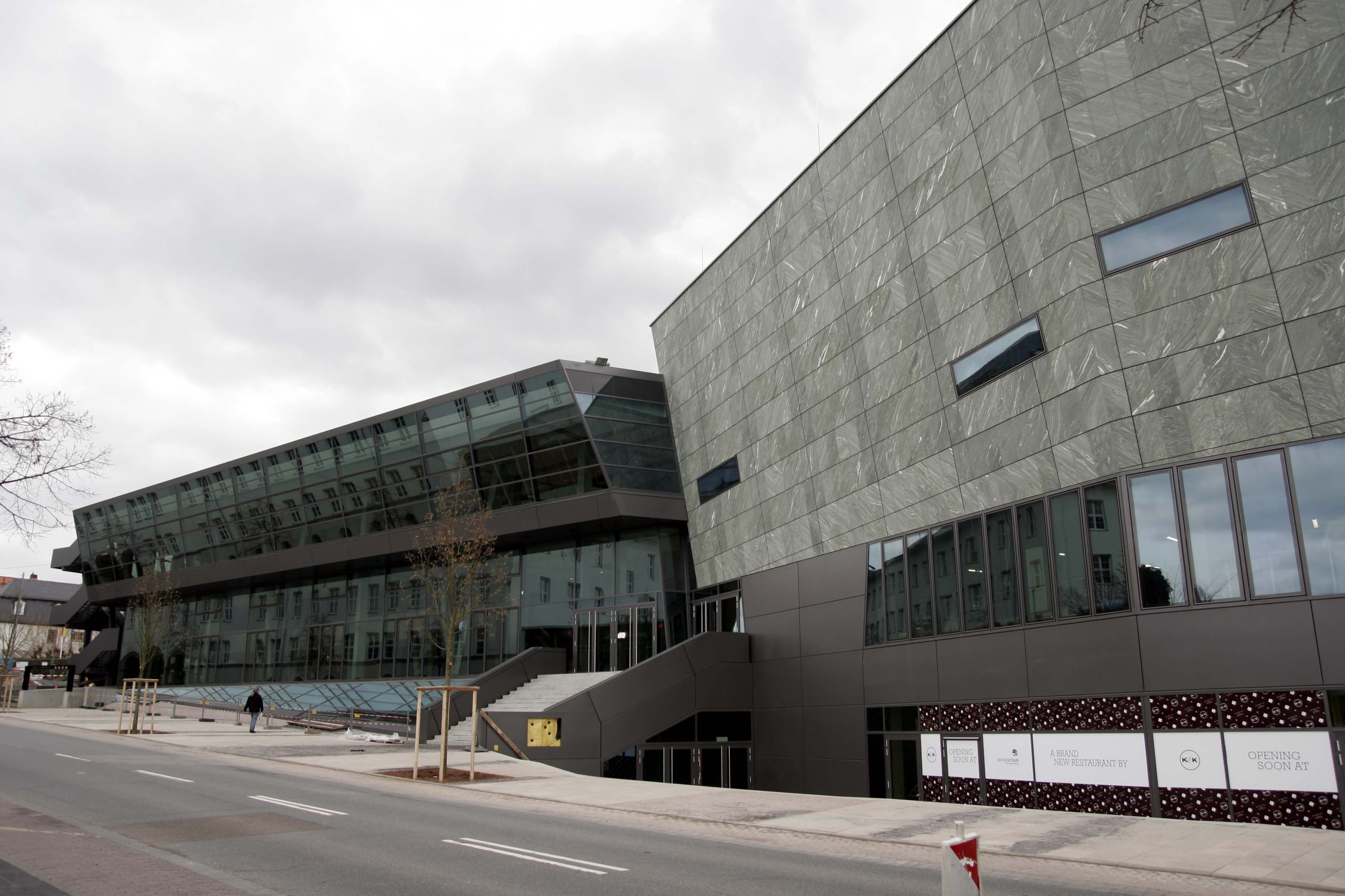 The darmstadtium Science & Congress Center in Darmstadt, Hesse, Germany